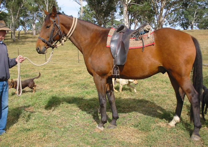 An Australian Stock Horse carrying a saddle that was hand made by Warren Newcombe who was a saddler at Walcha, NSW. The tree was reinforced to take a removable horn. Provision was also made for the use of a flank girth when using the horn. Horse wears a traditional Barcoo (ringhead) bridle (with the reins tied around the neck) and a headcollar. The Australian Kelpies are also ready for a day's stockwork.